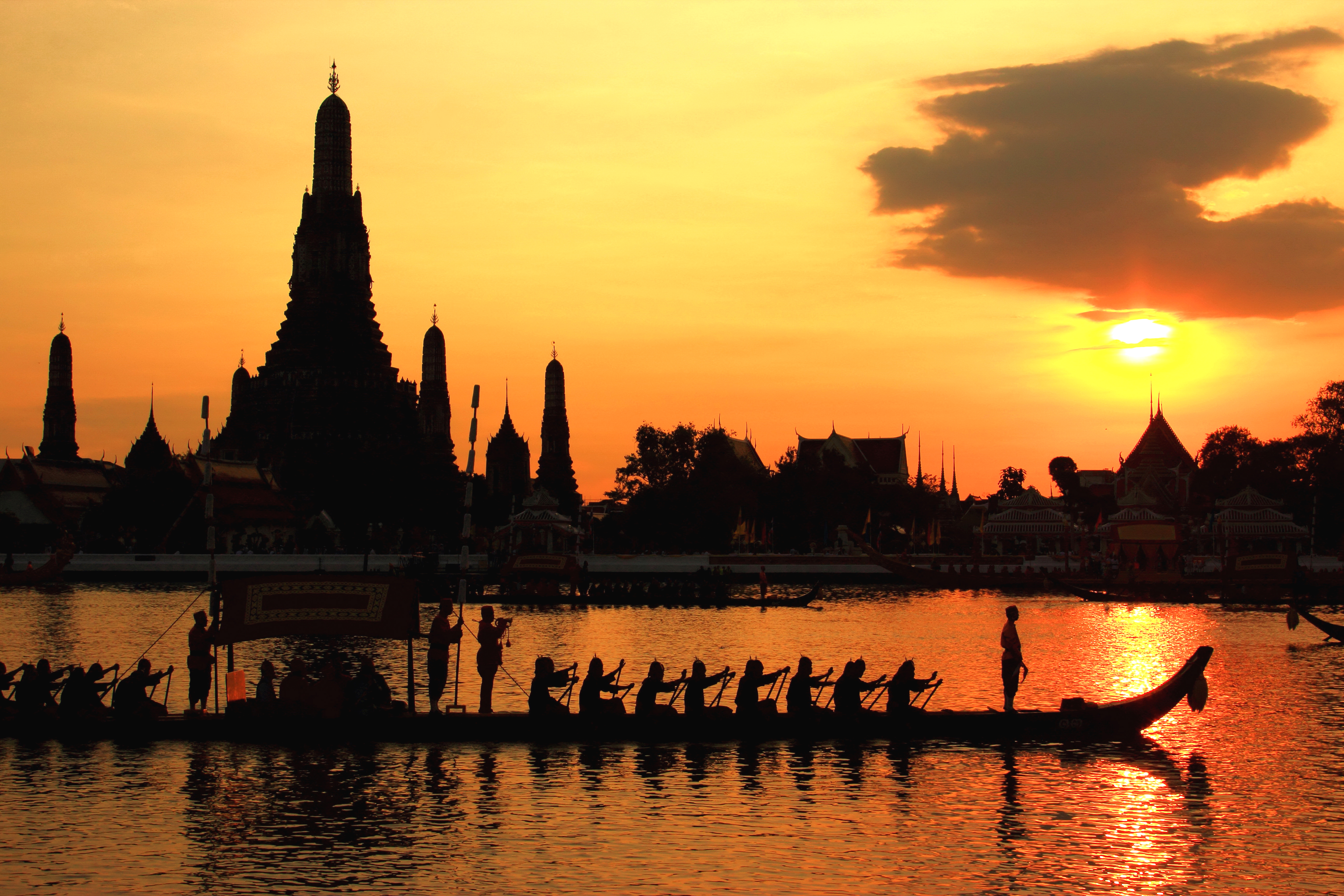 Wat Arun